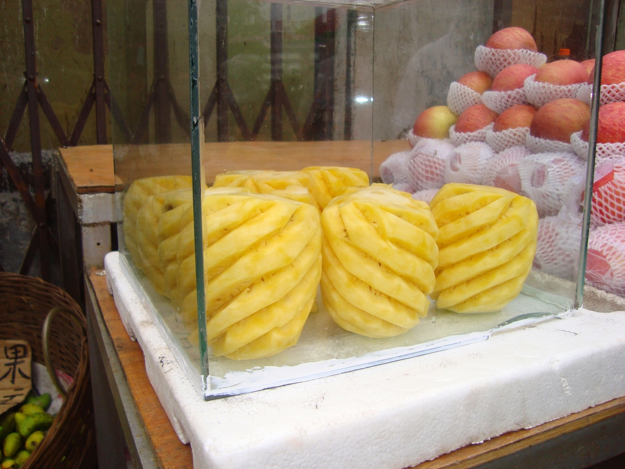 Pineapple prepared for sale in Haikou, Hainan, China.